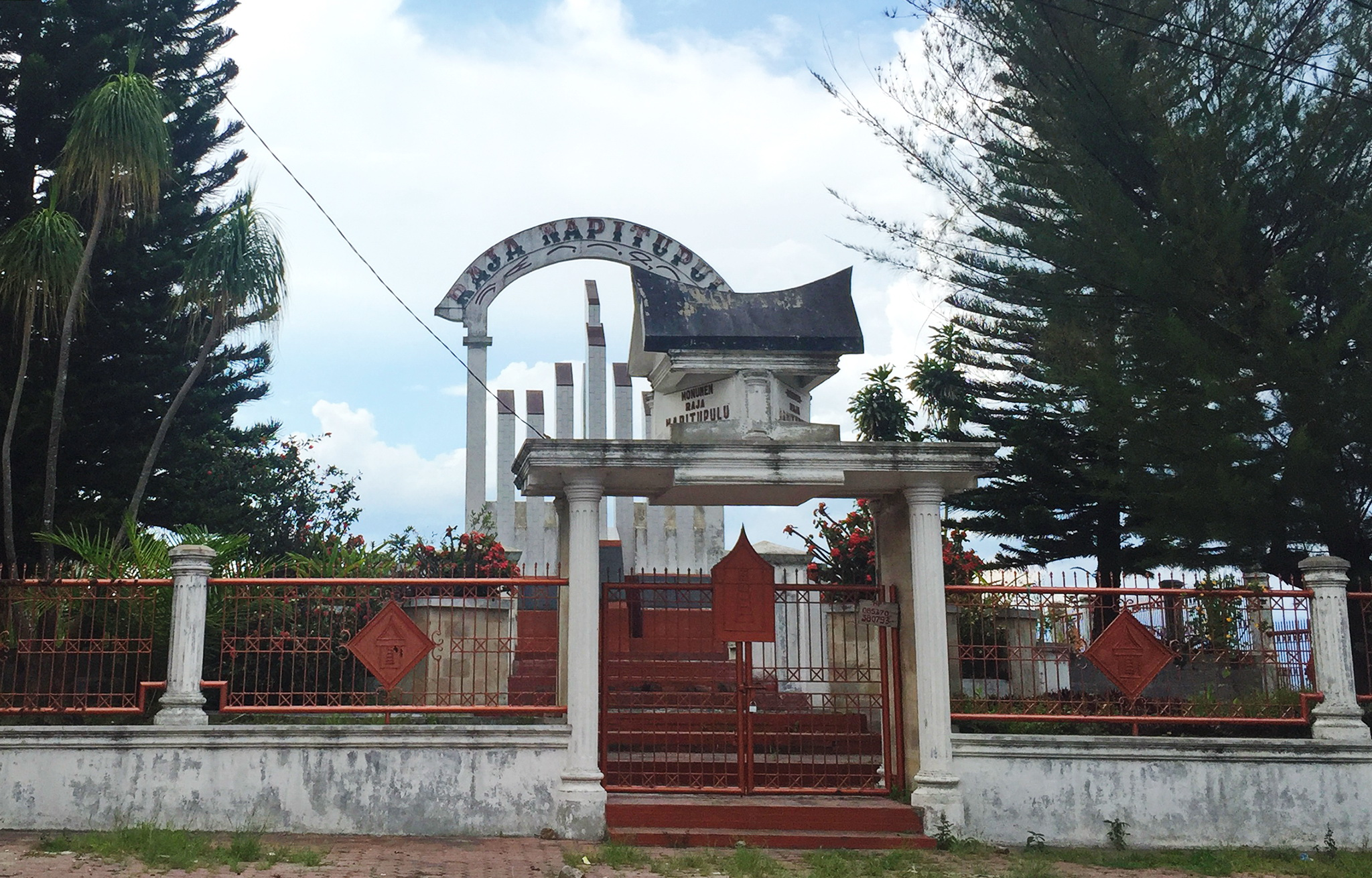 Monument of Napitupulu clan in Balige, Toba Samosir